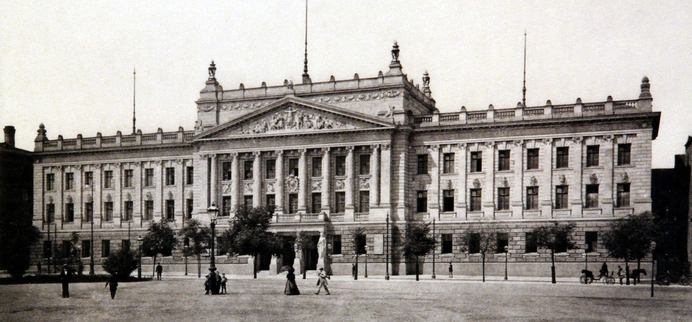 Augusteum, the former main building of Leipzig University, 1898 on a photogravure by Kunstanstalt Gustav Brinkmann Leipzig. This is a cut version of Leipzig_universität_1898